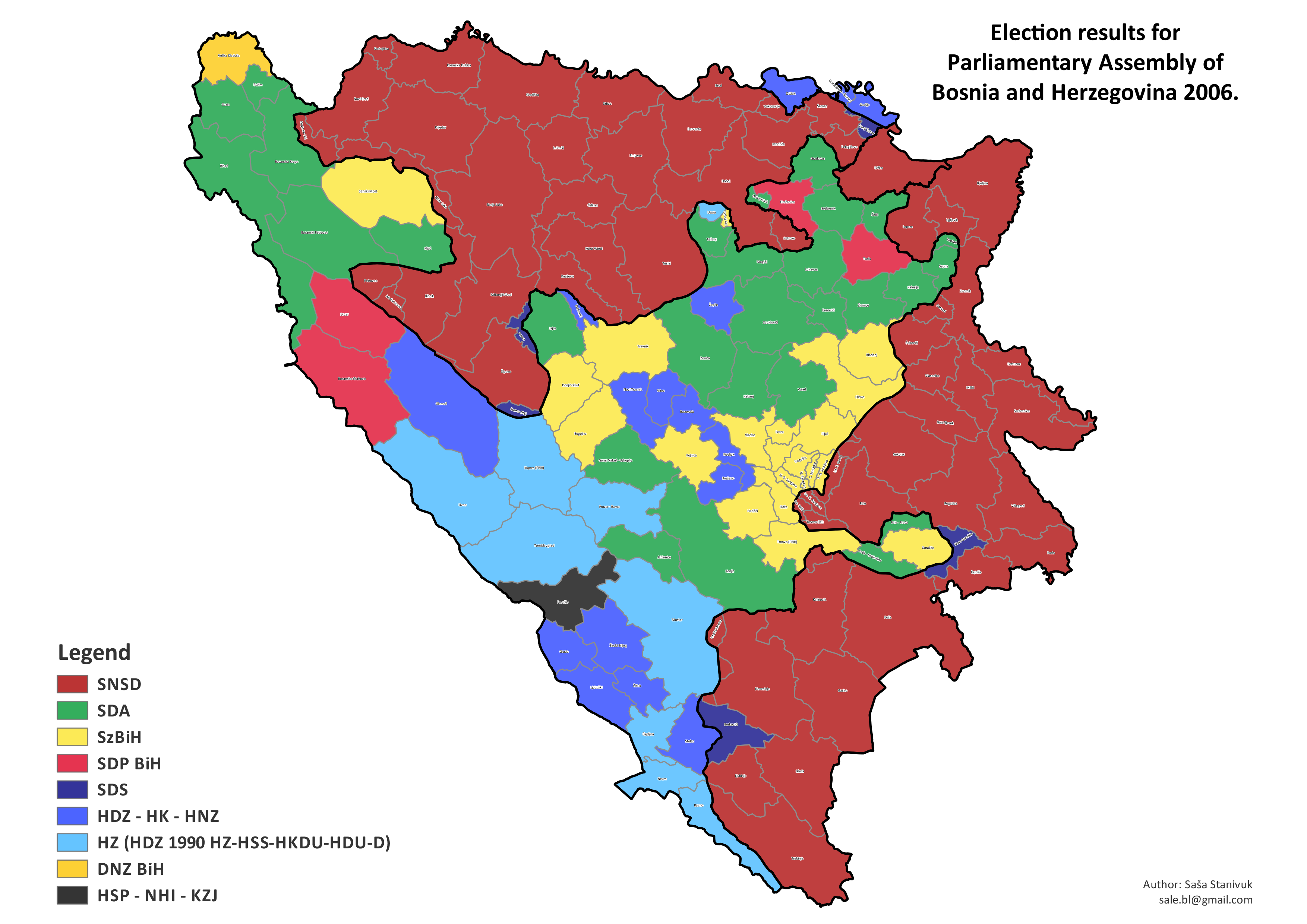 Bosnia and Herzegovina, parliamentary election map, 2014